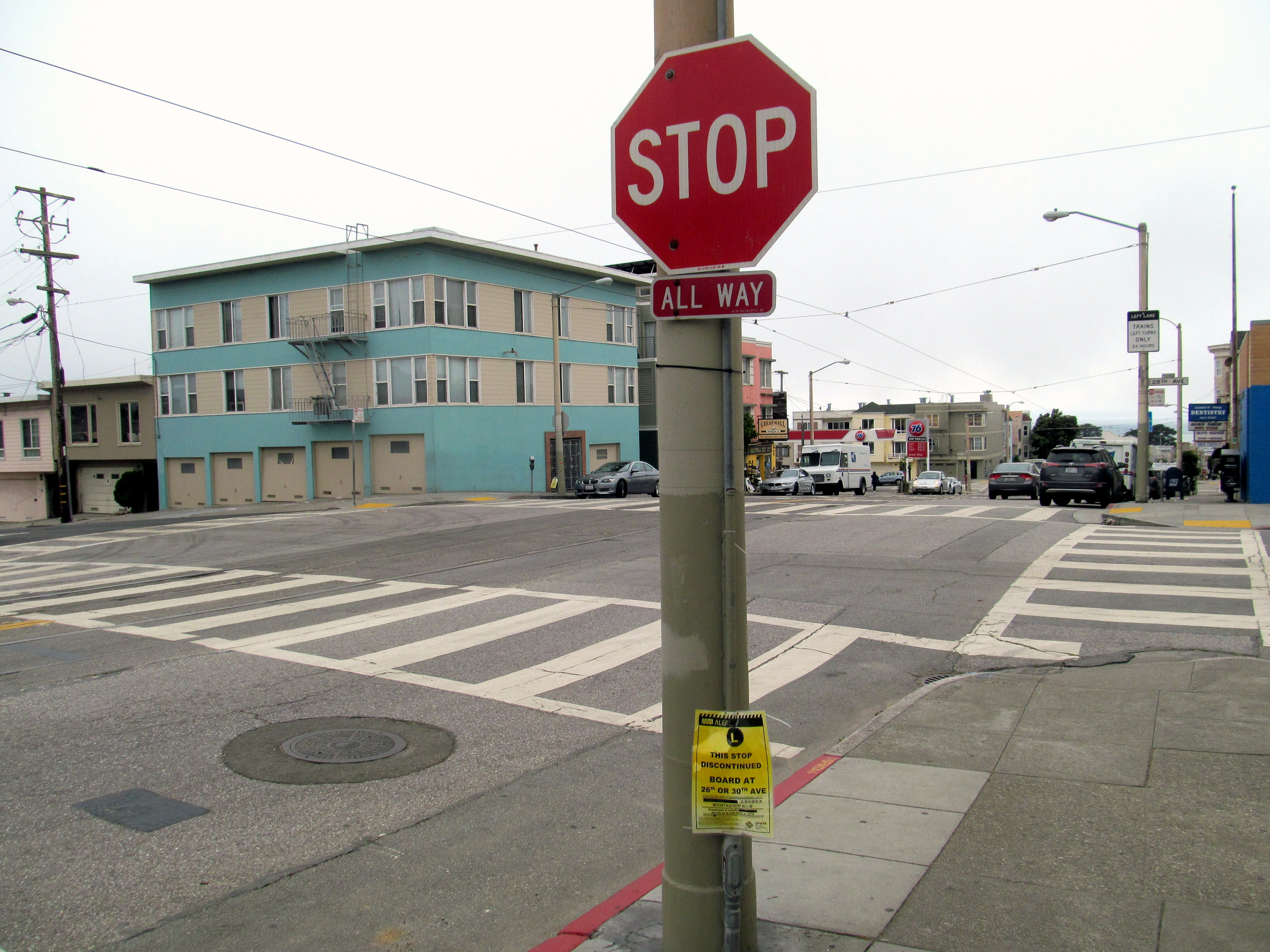 Location of the former Taraval and 28th Avenue station in June 2017, four months after it closed. The yellow band on the pole marking the outbound stop has been painted over, and a small notice indicates the closure.